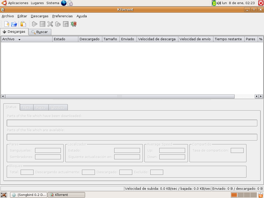 KTorrent - Spanish